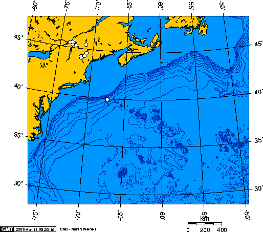 A portion of the New England hotspot. The westernmost white dot is Mont Royal in Montreal. The next clump of white dots are the White Mountains. The white dot just off the continental shelf is the Bear seamount, the westernmost seamount.